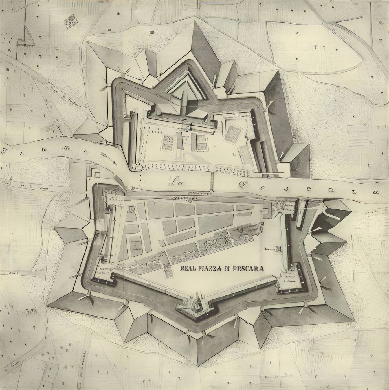 Lithography of Pescara fortress